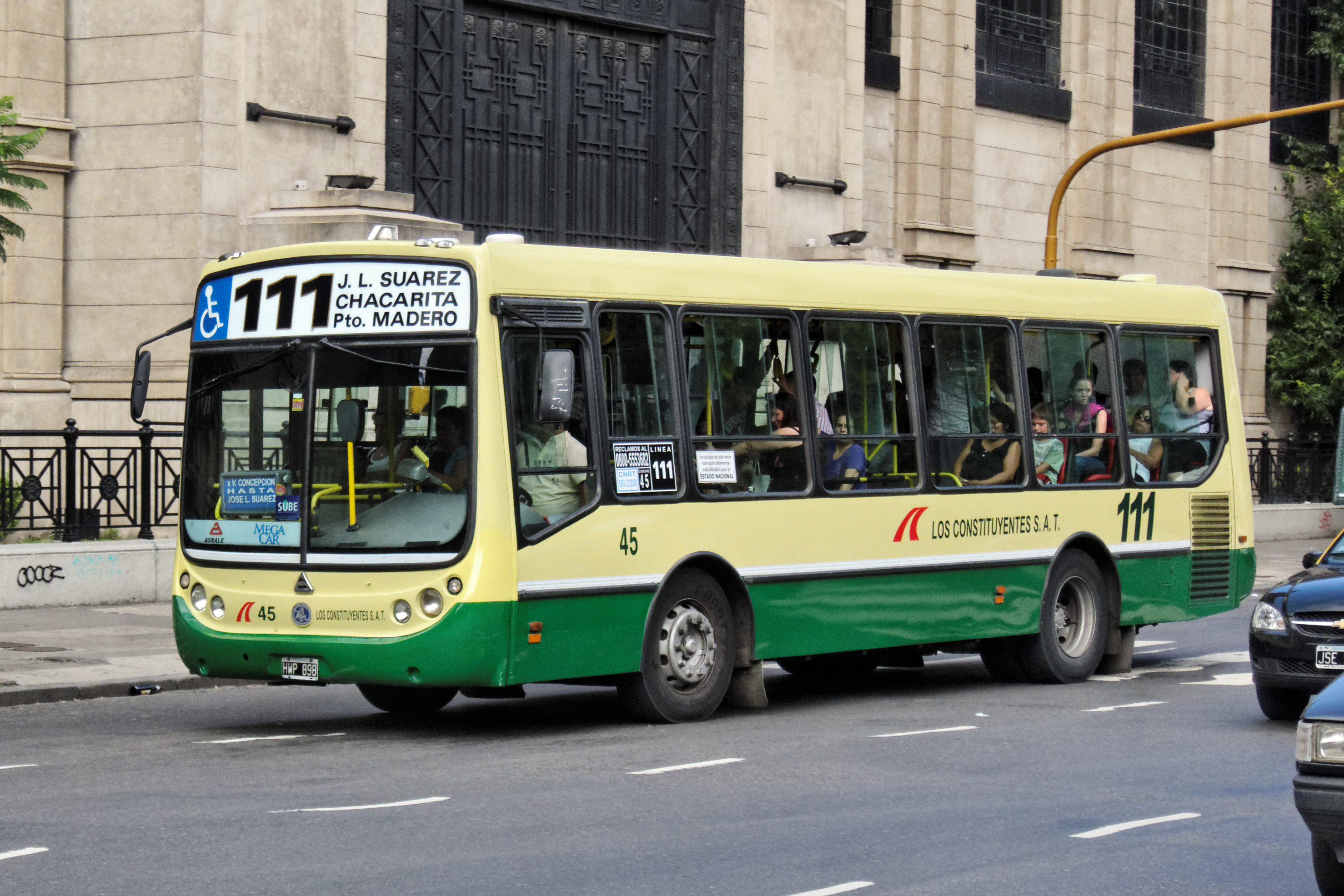 Metalpar Tronador bus (reg. HWP 898, #45) with Agrale chassis in Buenos Aires, Argentina. Colectivo, line 111, Los Constituyentes S.A.T. (D.O.T.A.) operator.